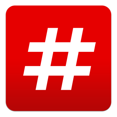 part of the logo (colors inverted) for Ruter AS, a common management company for public transport in Oslo and Akershus which is owned by Oslo municipality (60 %) and Akershus county authority (40 %). The symbol is also known as the Number sign # (Unicode glyph U+0023), pound sign, hashtag symbol, or U+0023 # number sign (HTML: # Other accepted names in Unicode are: pound sign, hash, crosshatch, octothorpe)